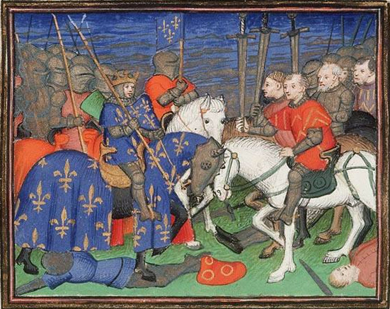 Vincent of Beauvais, Le Miroir Historial (Vol. IV). Philippe II's victory at Bouvines (Koninklijke Bibliotheek MS 72 A 24 fol. 308r) Place of origin, date: Paris, Master of the Cité des Dames (illuminator); c. 1400-1410 Material: Vellum, ff. 401, 425x320 (254x196) mm, 43 lines, littera cursiva, Binding: 18th-century brown leather; gilt; with coat of arms of Stadholder William V Decoration: 1 two-column miniature (185x200 mm); 19 column miniatures (110/70x90/85 mm); decorated initials with border decoration (ff. 3r, 10r, 15r, 19r, 20r, etc.) Added: 1 illustration in the margin (coat of arms) Provenance: acquired before 1492 by Philip of Cleves (d. 1528; coat of arms with label; signature); purchased in 1531 from his estate by Henri III, Count of Nassau (d. 1538); by descent to the Princes of Orange-Nassau, the later Stadholders, at The Hague; carried off in 1795 toParis by the French and restituted to the KB in 1816 Annotation: Vol. I-III (now: Paris, Bibliothèque Nationale de France, fr. 308-311) were decorated but not illustrated in the early 15th century. Apparently separated from their fourth volume from the beginning, they were illustrated on behalf of a later owner, Louis de Gruuthuse,in the early 1450s